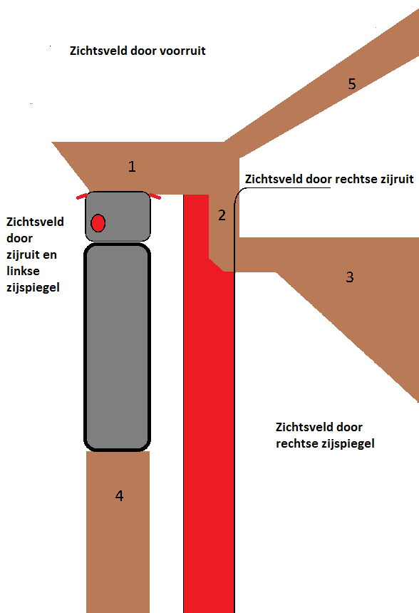 Blind (Death) corners for a truck